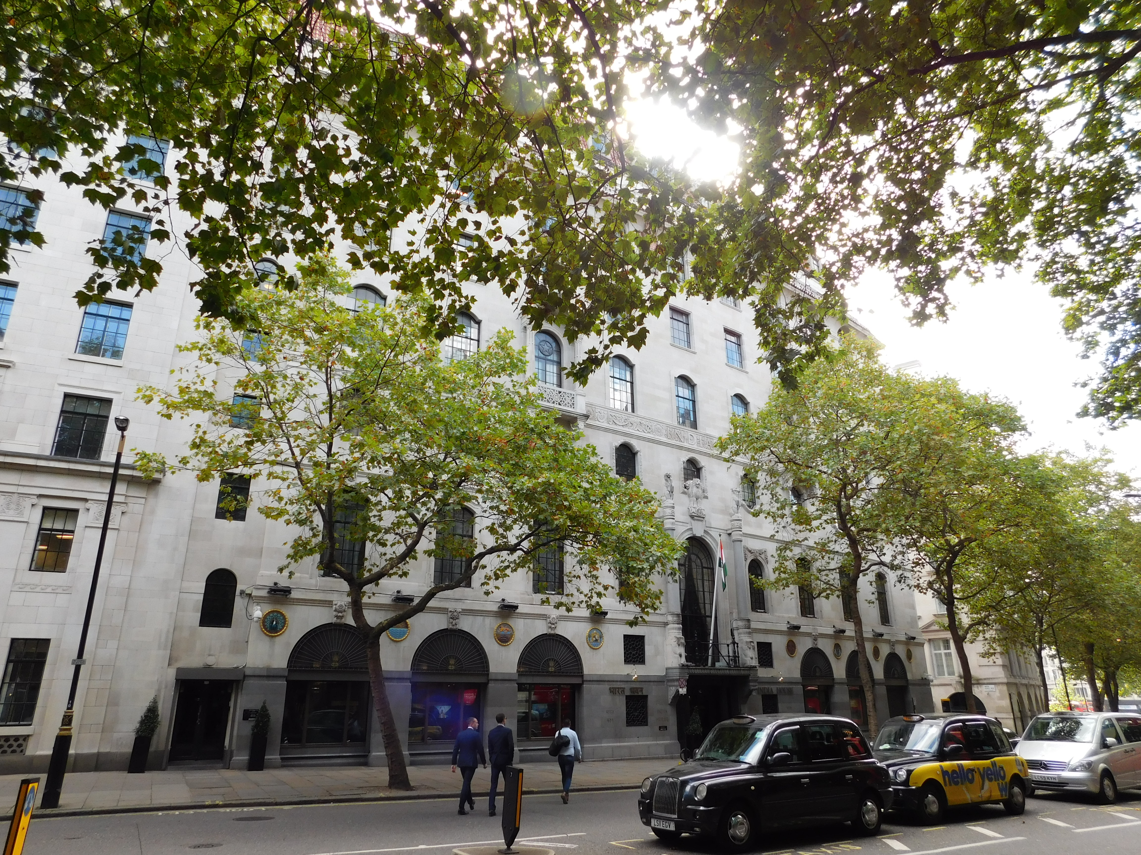 India House, London Wikidata has entry Q14996965 with data related to this item.